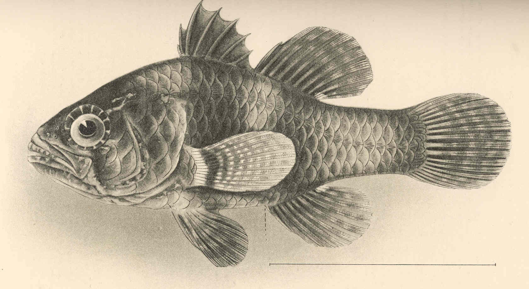 Apogonichthys waikiki Jordan & Evermann. Type Mionorus waikiki Subject: Apogonidae, Apogonichthys, Mionorus Tag: Fish